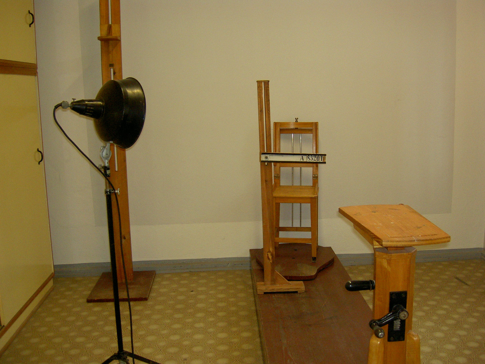 Photo room in Memorial place Berlin-Hohenschönhausen